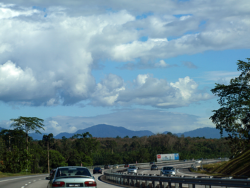 Banjaran Titiwangsa (Titiwangsa Mountain Range).